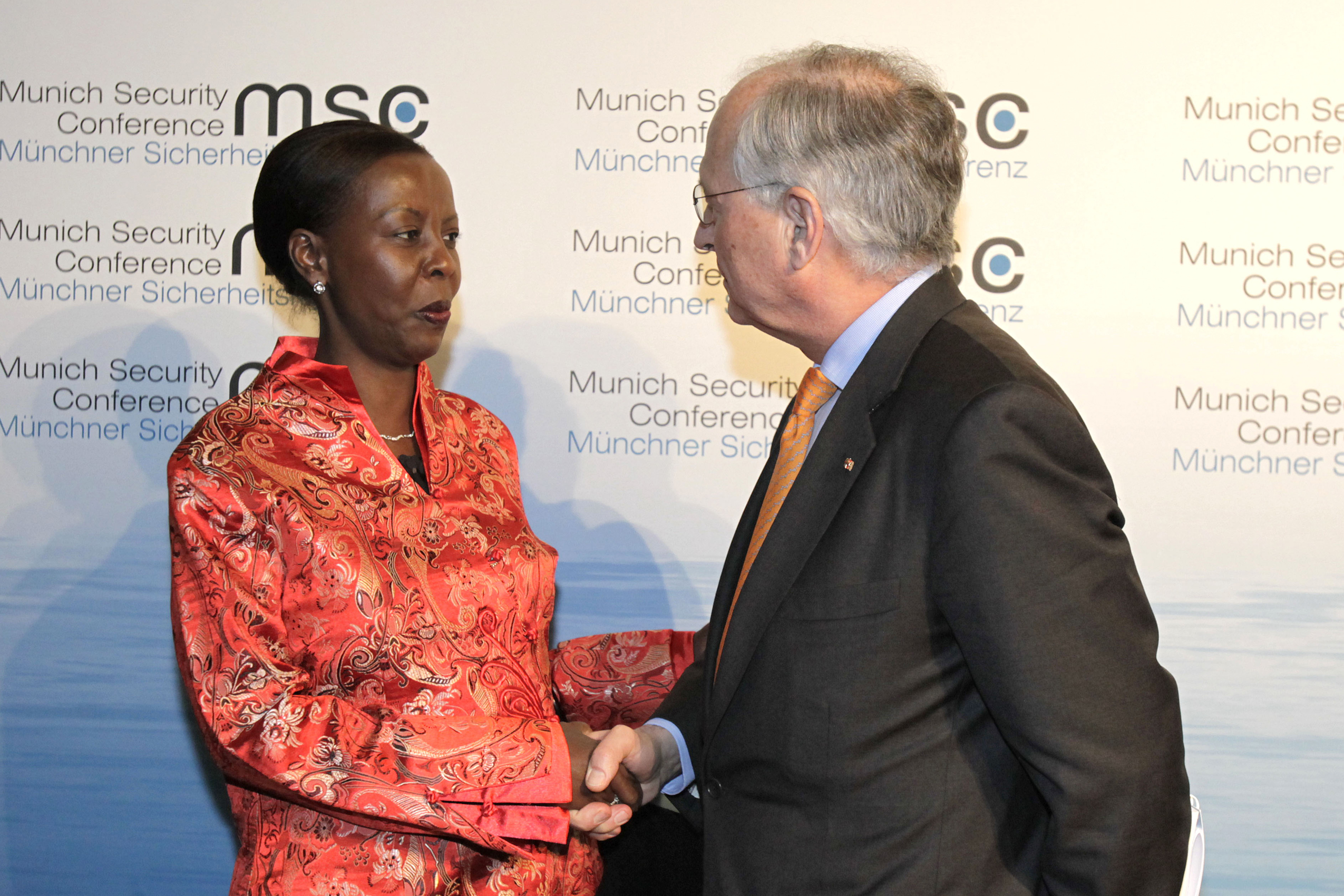 50th Munich Security Conference 2014: Louise Mushikiwabo and Wolfgang Ischinger: Louise Mushikiwabo (Minister of Foreign Affairs and Cooperation, Republic of Rwanda), and Wolfgang Ischinger.